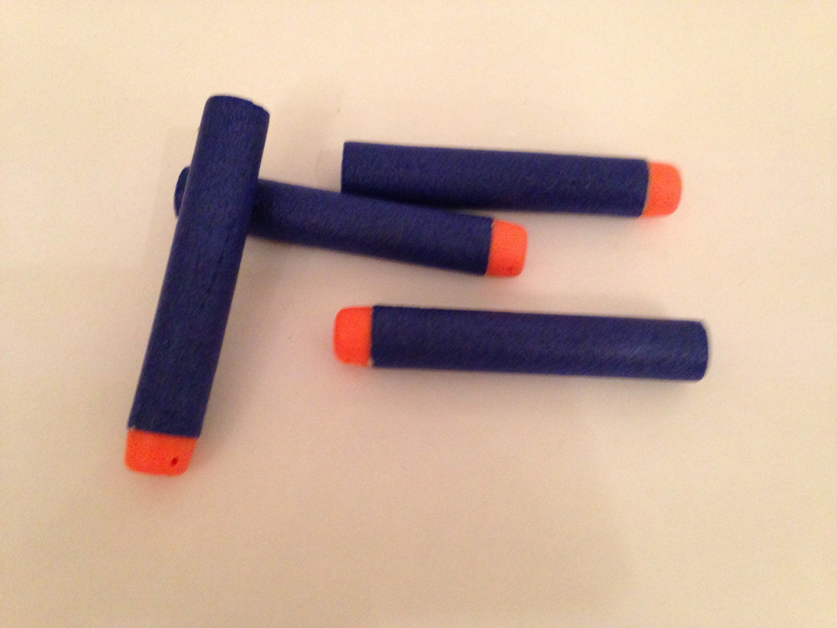 Nerf Munition